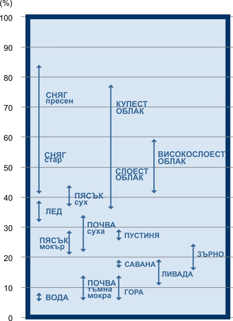 Abedo